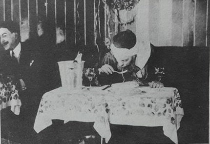 A photograph of Naguib el-Rihani and some other actors from a play entitled "Kishkish bey fi Paris" (Kishkish bey in Paris), which played during February 1917.